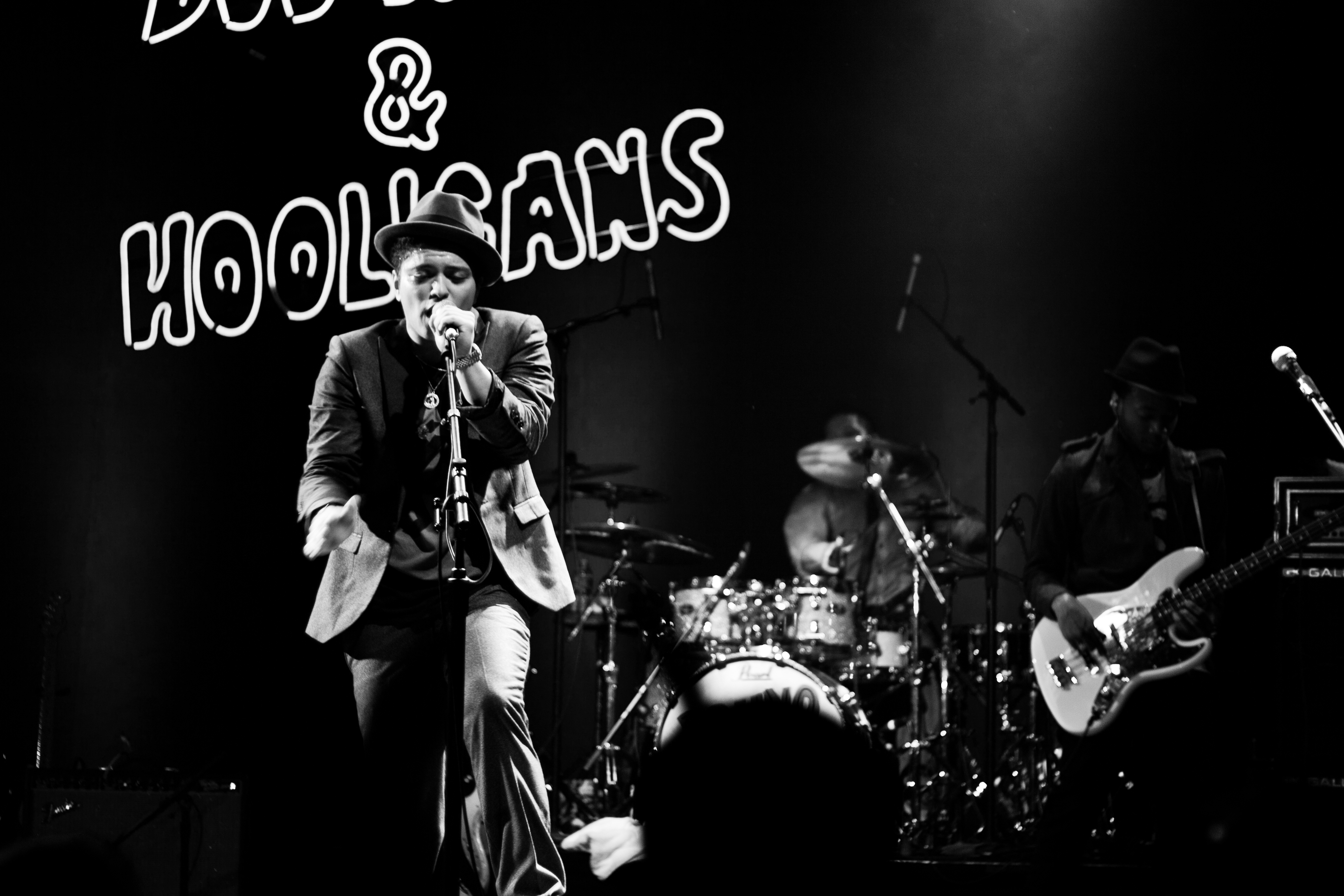 Warehouse Live